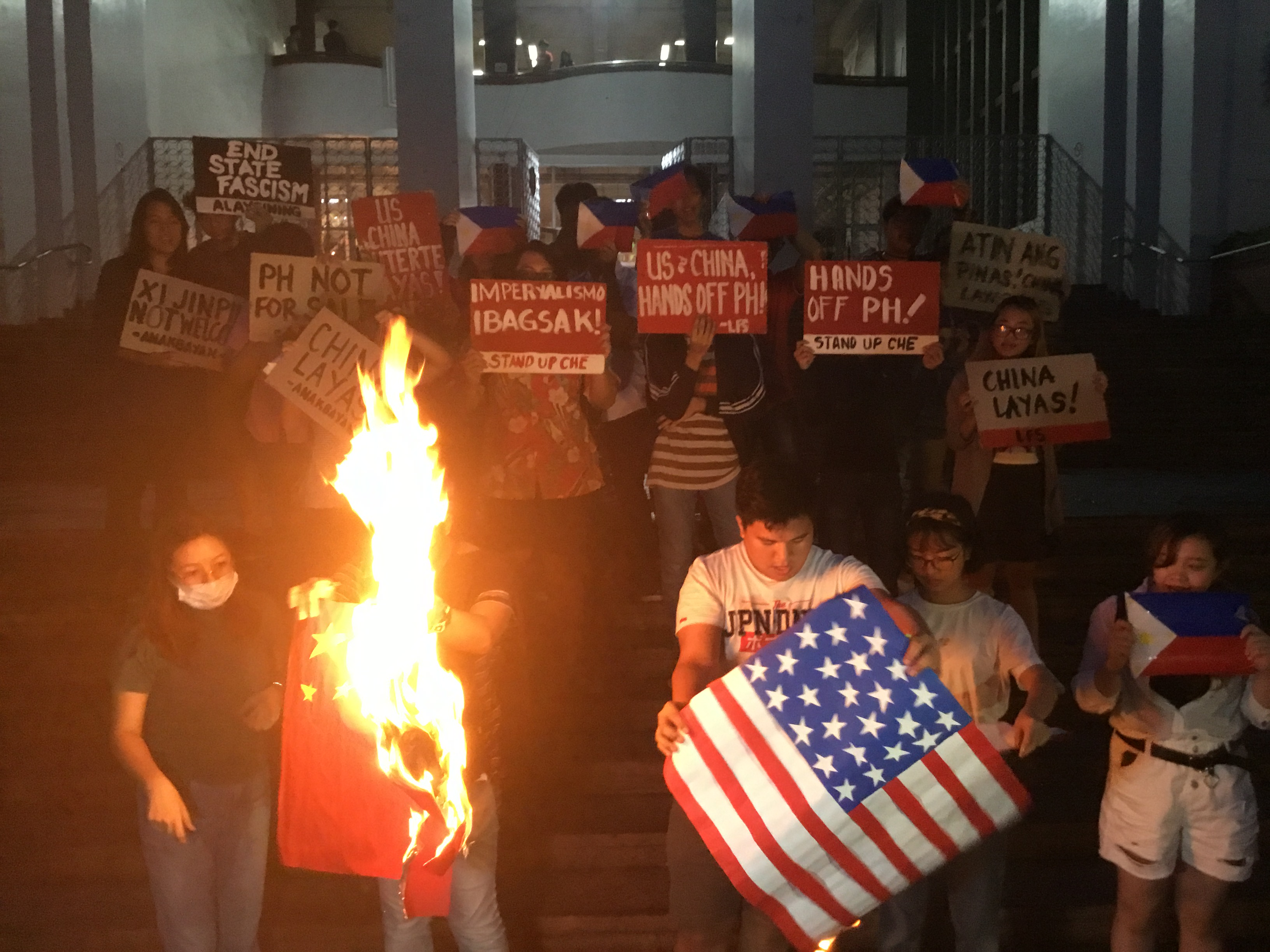 Protest Mobilization Against State Visit of Xi Jinping US-China Flag Burning by Students from University of the Philippines Diliman and Ateneo de Manila